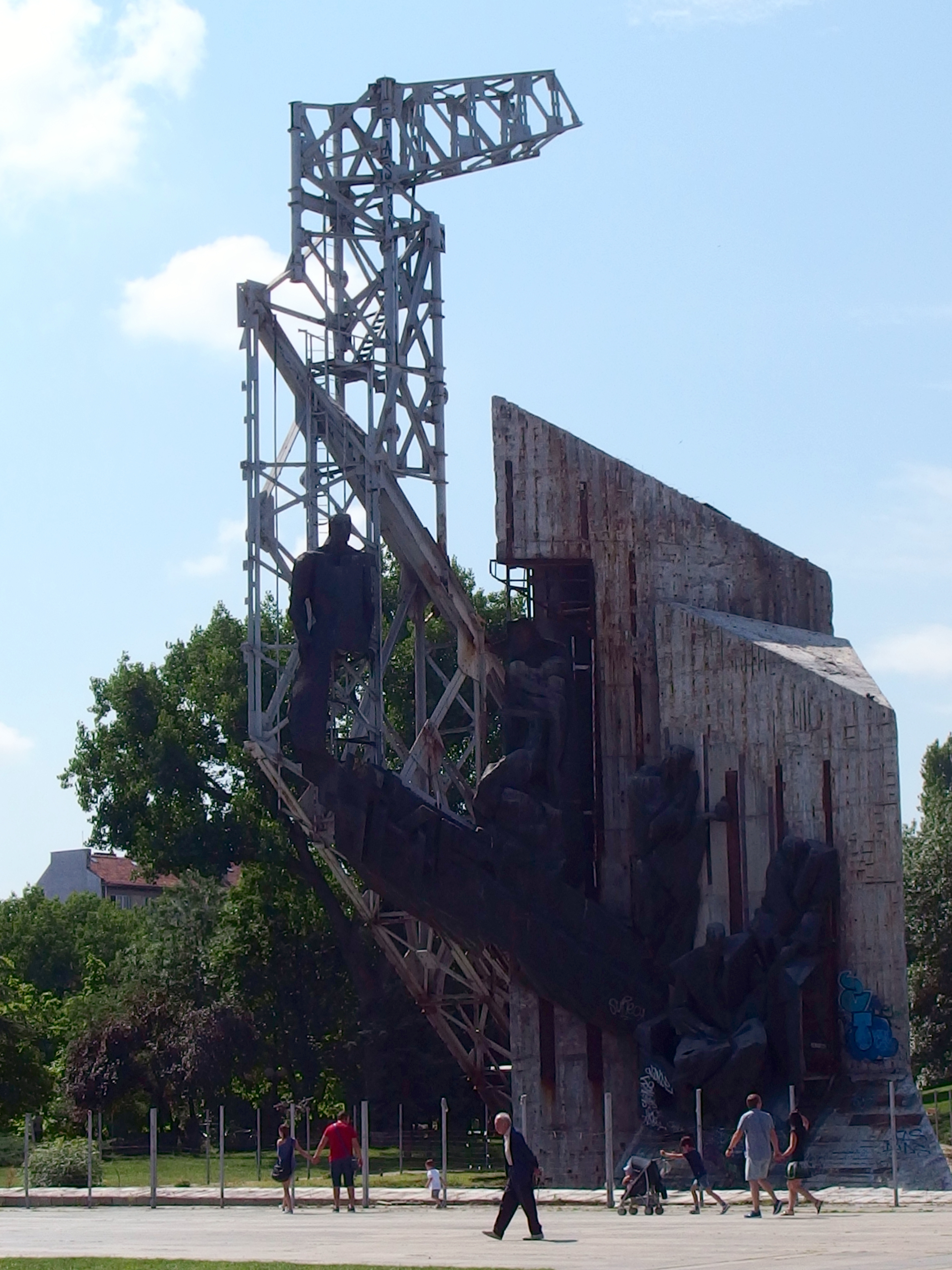 2014-06-15 in Sofia.